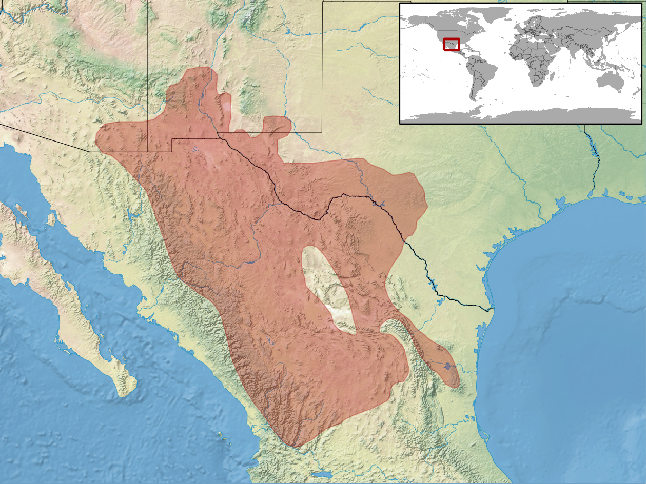 geographic distribution of Crotalus lepidus (Native: Mexico; United States)